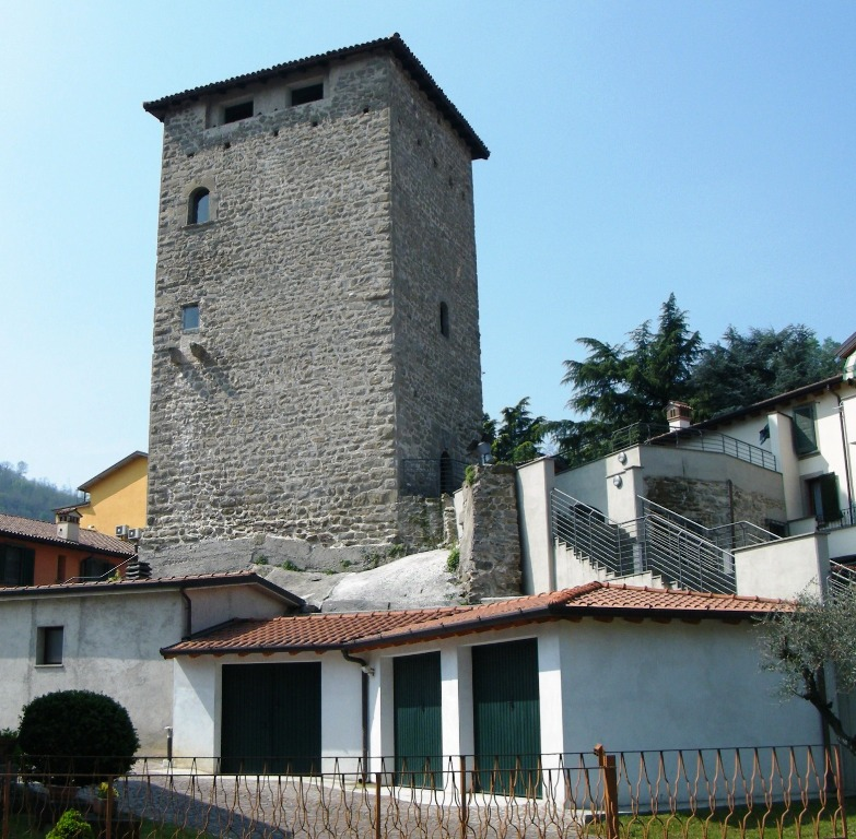 Tower Lantieri. Paratico.